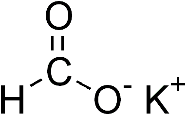 chemical structure of potassium formate